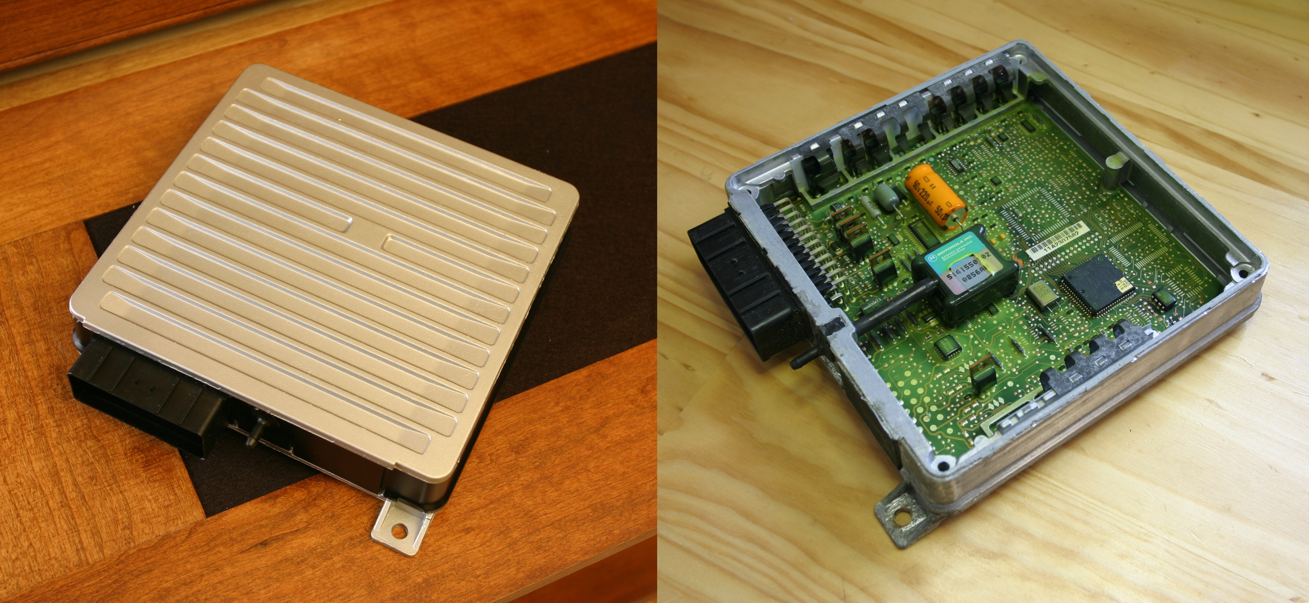 Two Rover Modular Engine Management System (MEMS) ECUs, both revision 1.6, one with its cover removed